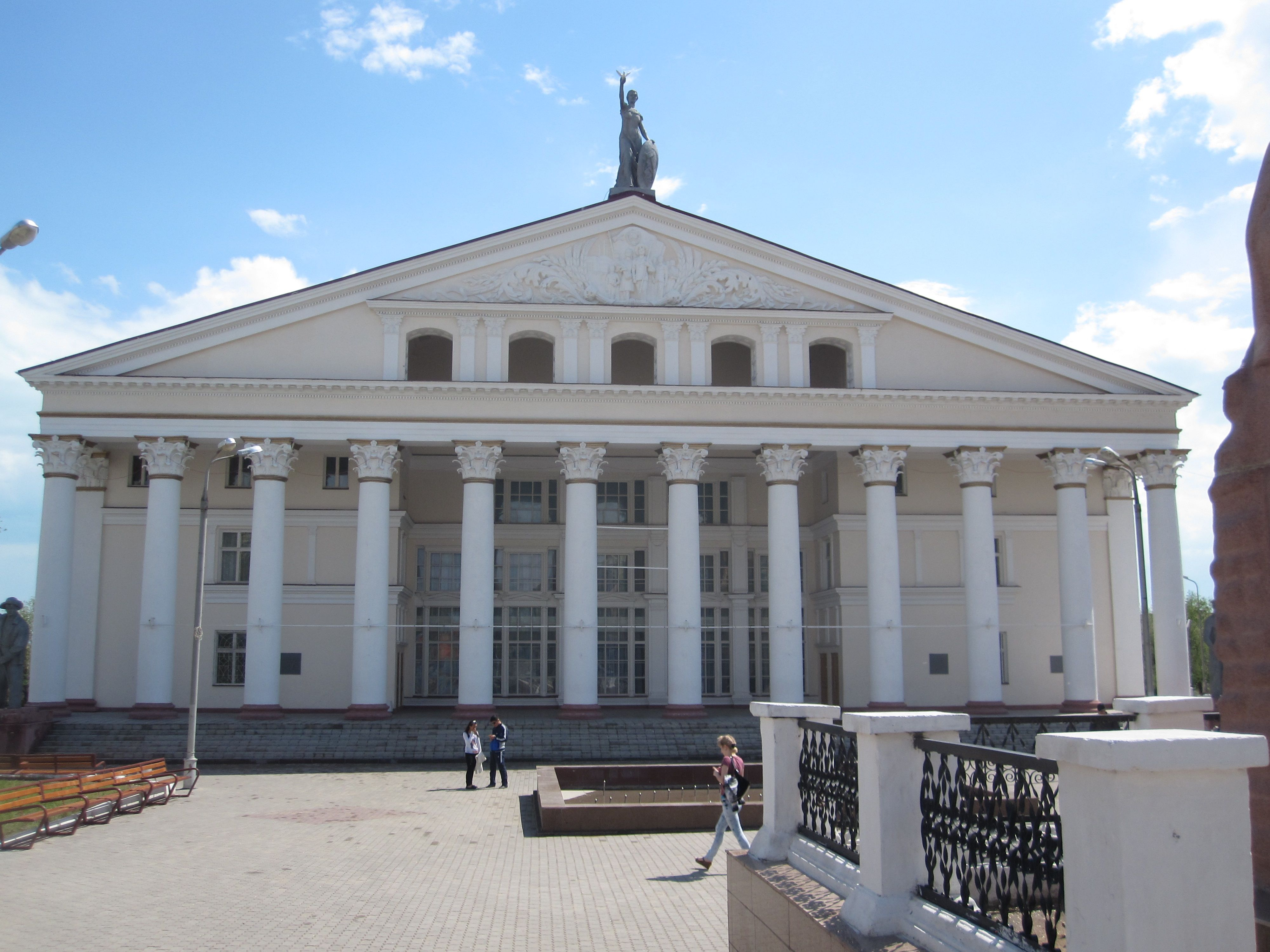 Picture of the Palace of Culture of Metalworkers. This is located at the center of the town of Balkhash Kazakhstan and is a community hub.